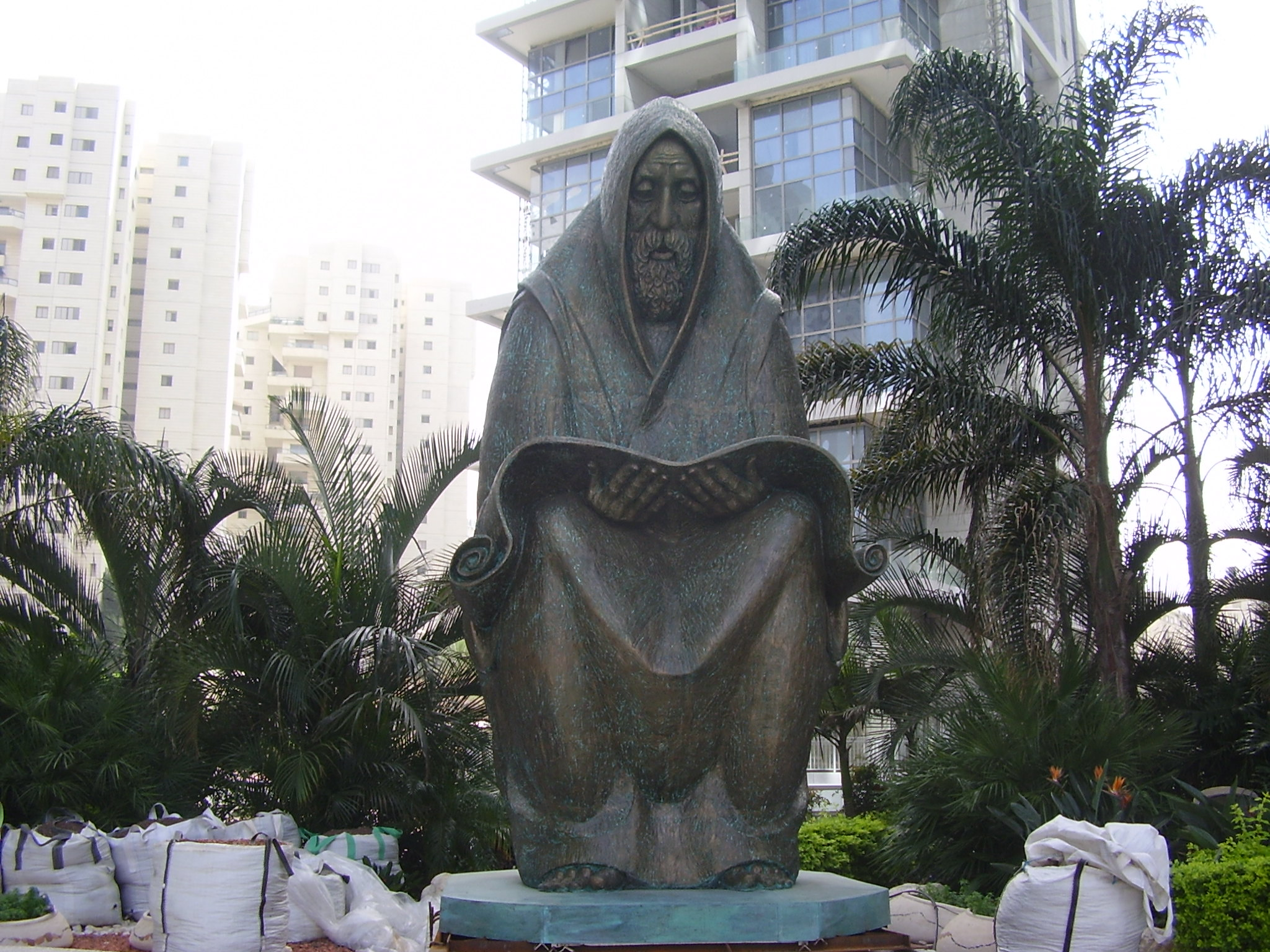 monument "prayer" in ramat gan, israel, jews who were killed in iraq in the pogrom "farhud" (1941) and the jews executed in iraq in the sixties הפסל "תפילה" לזכר עולי הגרדום בעיראק בשנות ה-60 ולהרוגי פוגרום ה"פרהוד" ב-1941